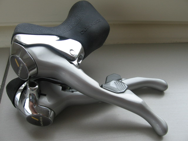 dura ace 8speed 7400 brake shift levers